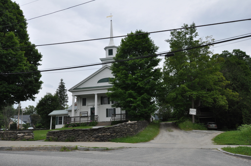 Plainfield Village Historic District, Plainfield, Vermont. Grace United Methodist Church.